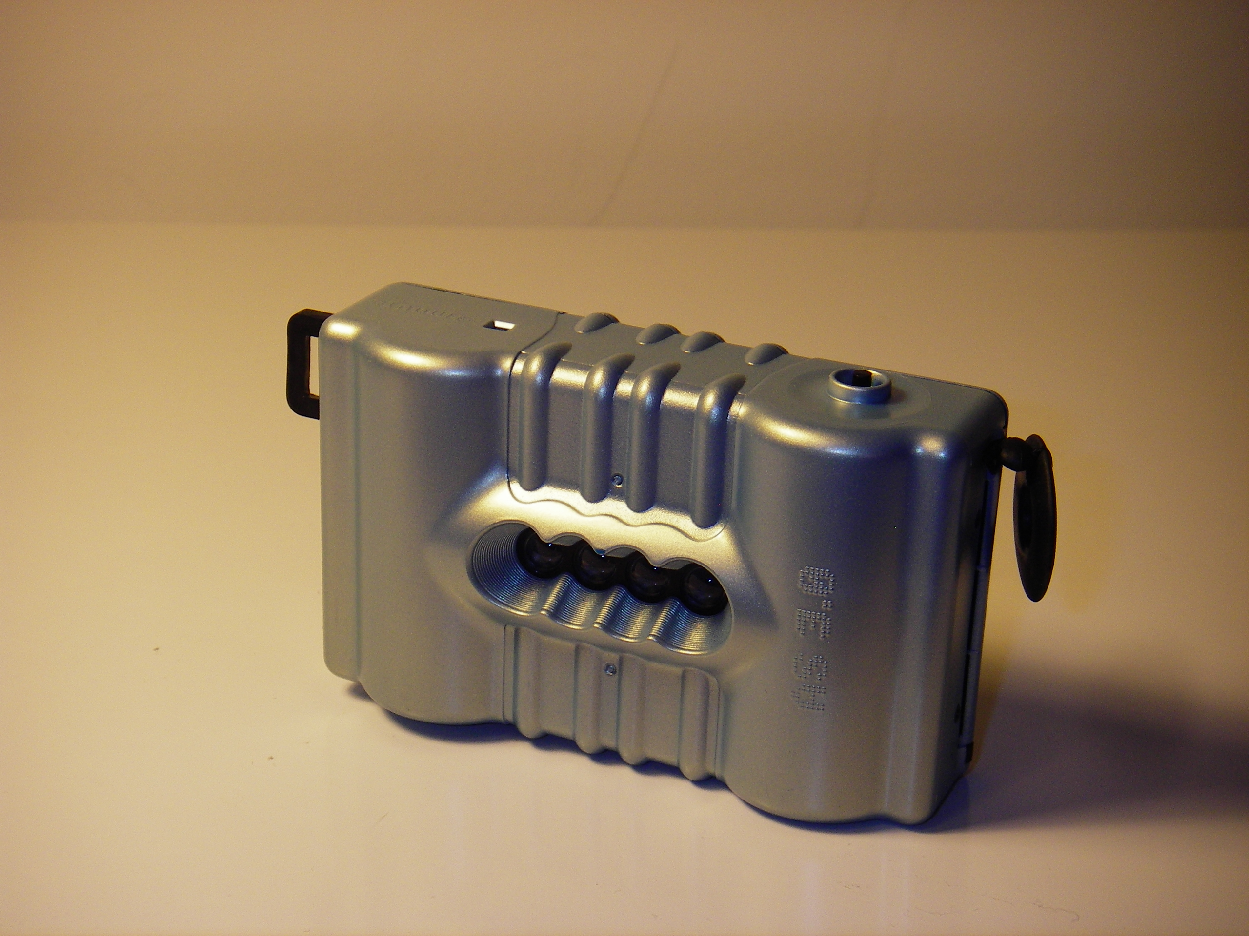 A recent toy camera acquisition. It's got 4 panoramic lenses. My photos from this camera